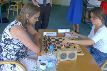 Left: Annemarie Sylvia Meier, German women chess championship 2003 at Altenkirchen (Westerwald), Photographer Gerhard Hund.